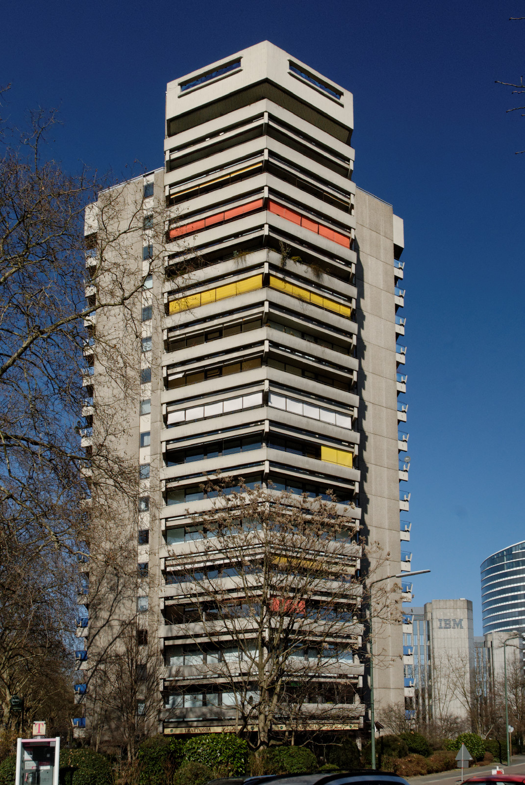 Sternhaus, Kaiserswerther Straße 115 in Düsseldorf-Golzheim, Germany